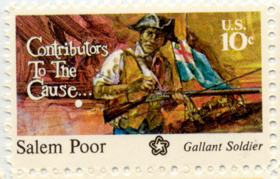 US stamp honoring Salem Poor